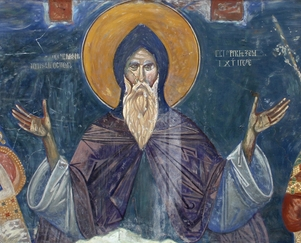 Saint Simeon (Stefan Nemanja), begining of the XIV century (1307—1309), fresco from Bogorodica Ljeviška church in Prizren, Serbia